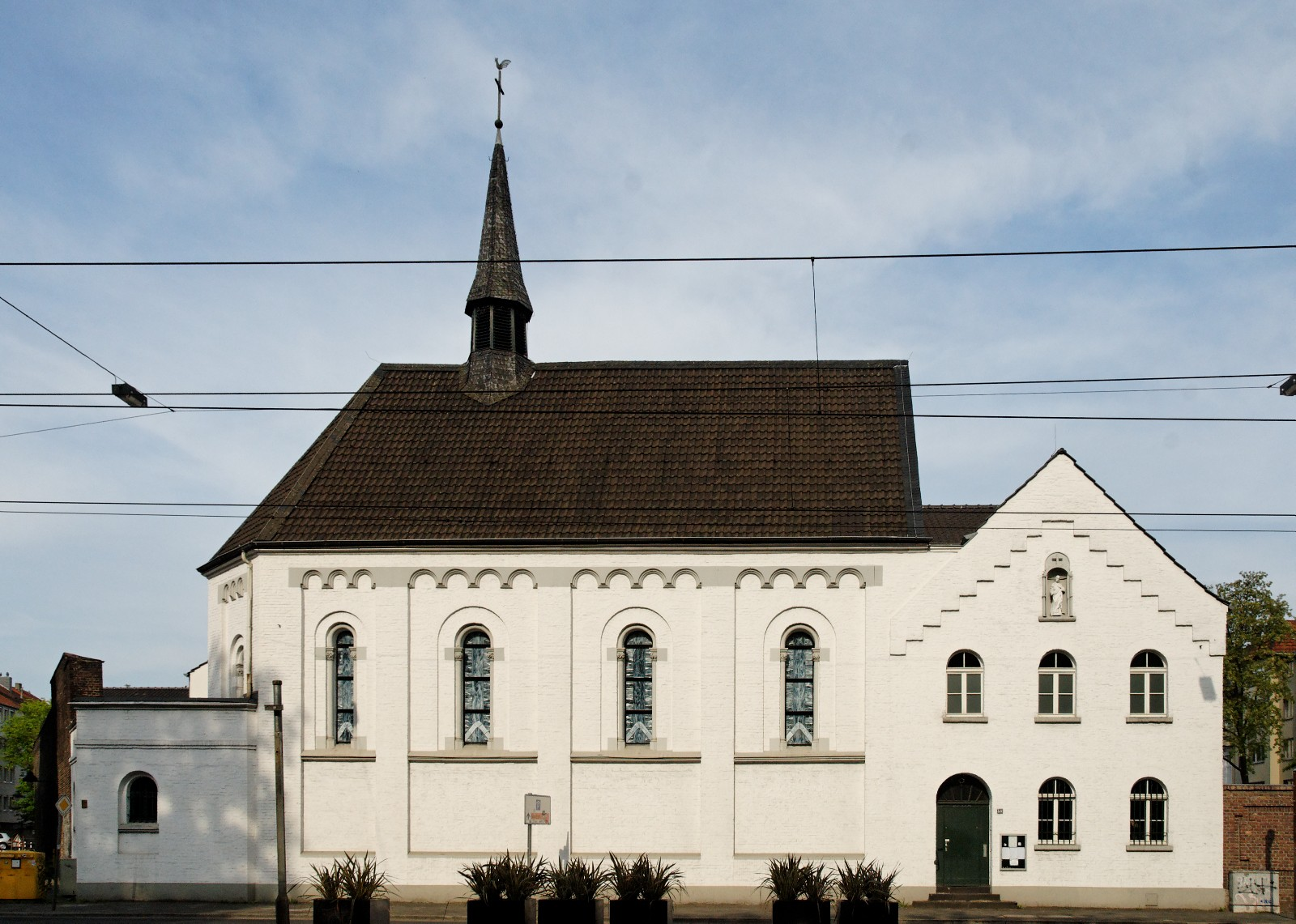 Clarisse Monastery in Düsseldorf-Pempelfort, Germany